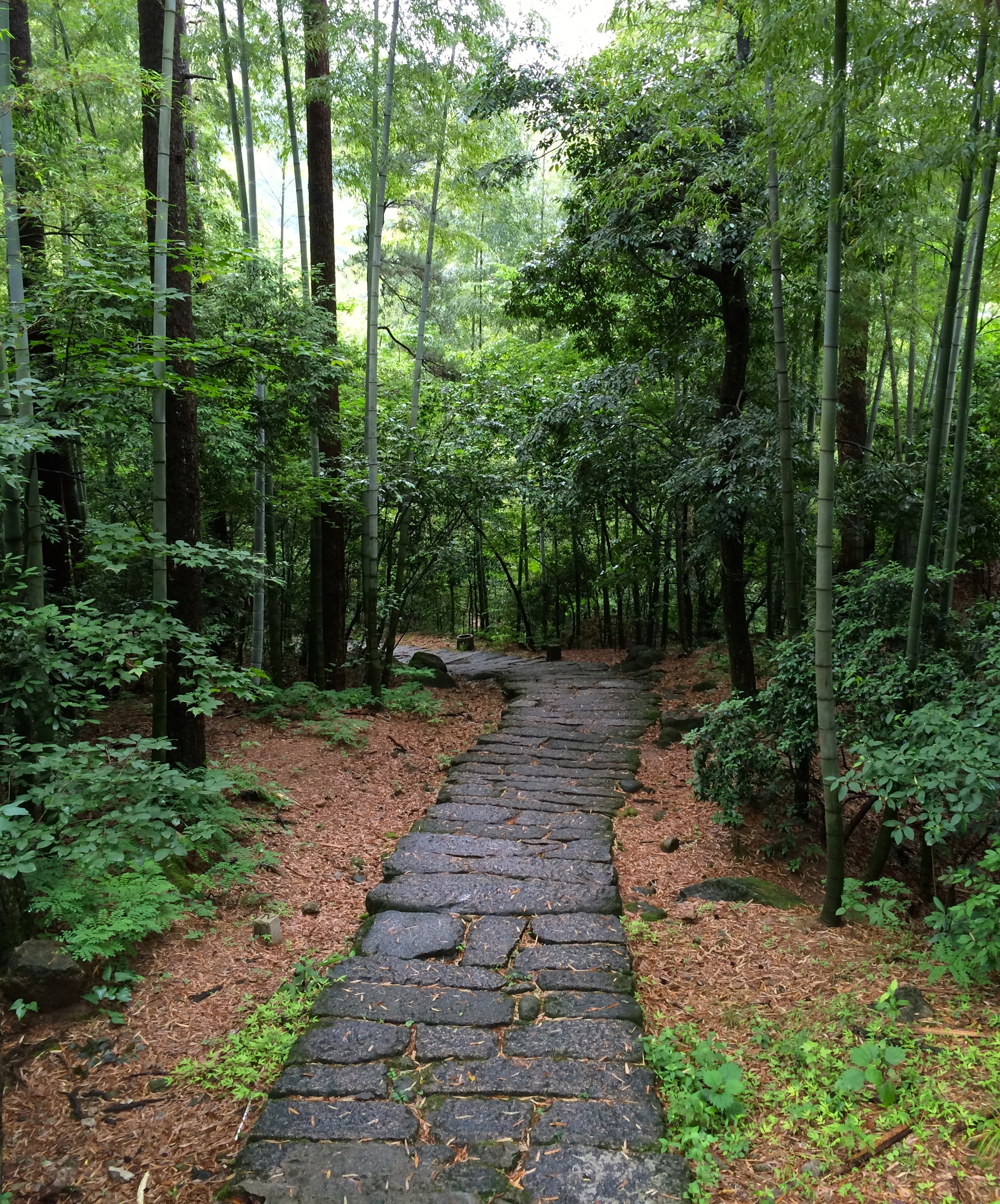 Bamboo forest at the foot of Huangshan